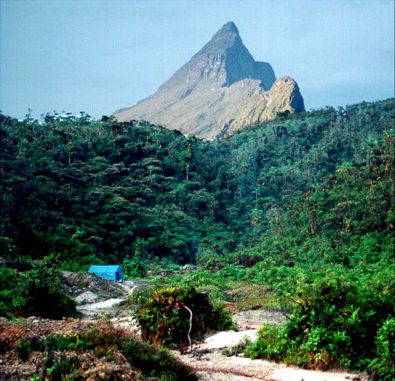 Pico da Neblina (Fog Peak) is the highest mountain in Brazil.